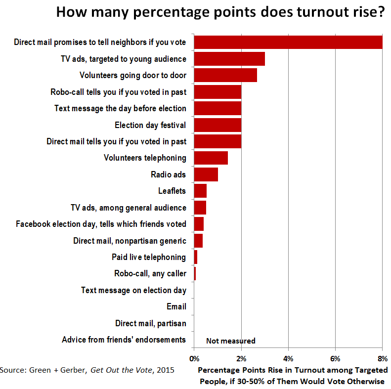 Compares effects of different methods of raising turnout. Effects are greatest among groups who have 30%-50% likelihood of voting. Effects are higher among those actually contacted by phone or in person. These numbers adjust for the fact that not everyone targeted is reached.